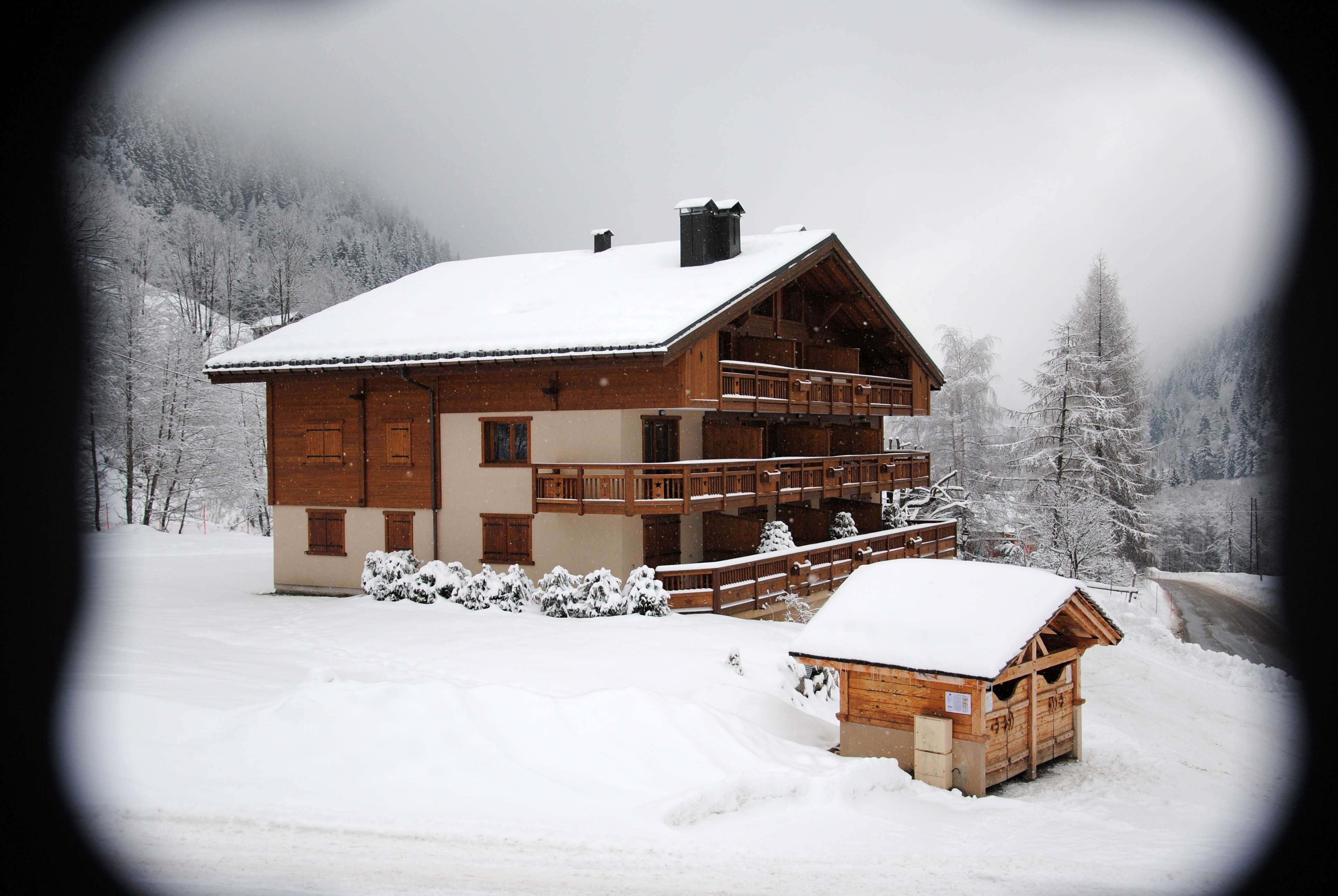 Chalet in the french alps (Le Planay - Areche Beaufort county)